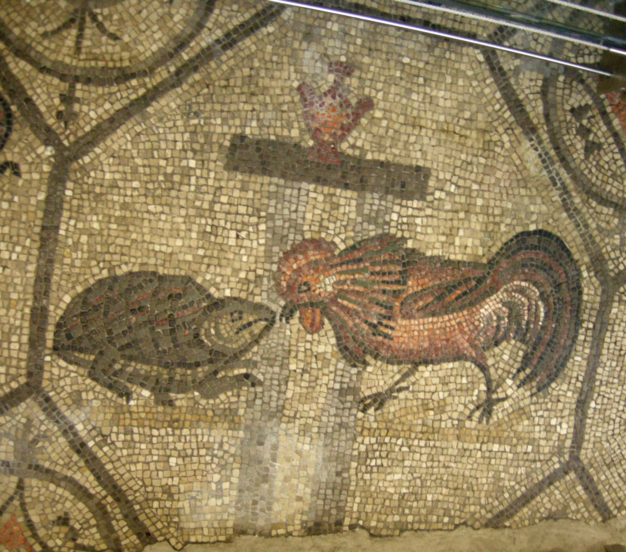 Patriarch's basilica, Aquileia. Excavations: Mosaic ( 4th century ) showing a cock ( light ) fighting against a turtle ( darkness ).